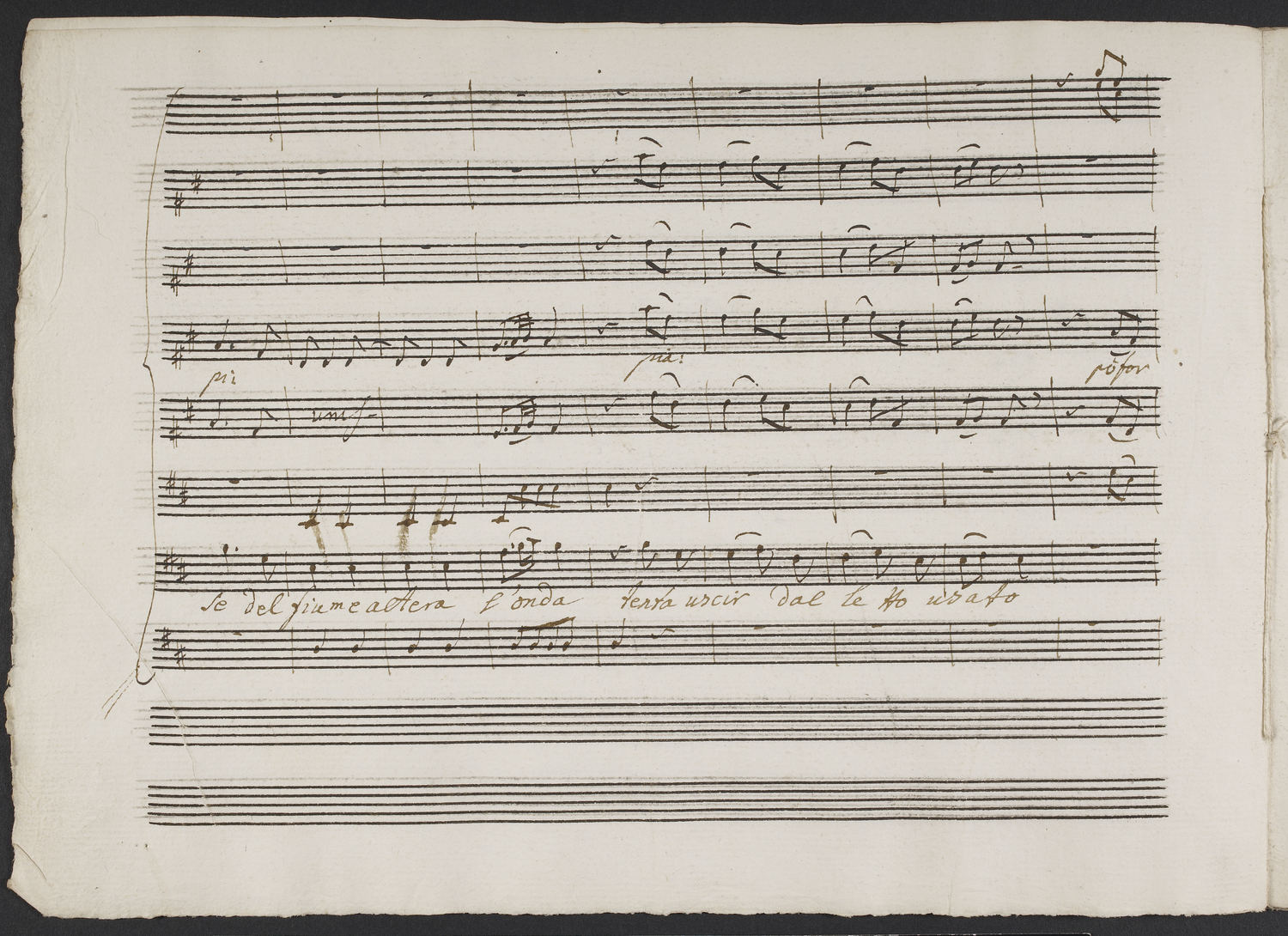 Joanna. In the composer's hand.